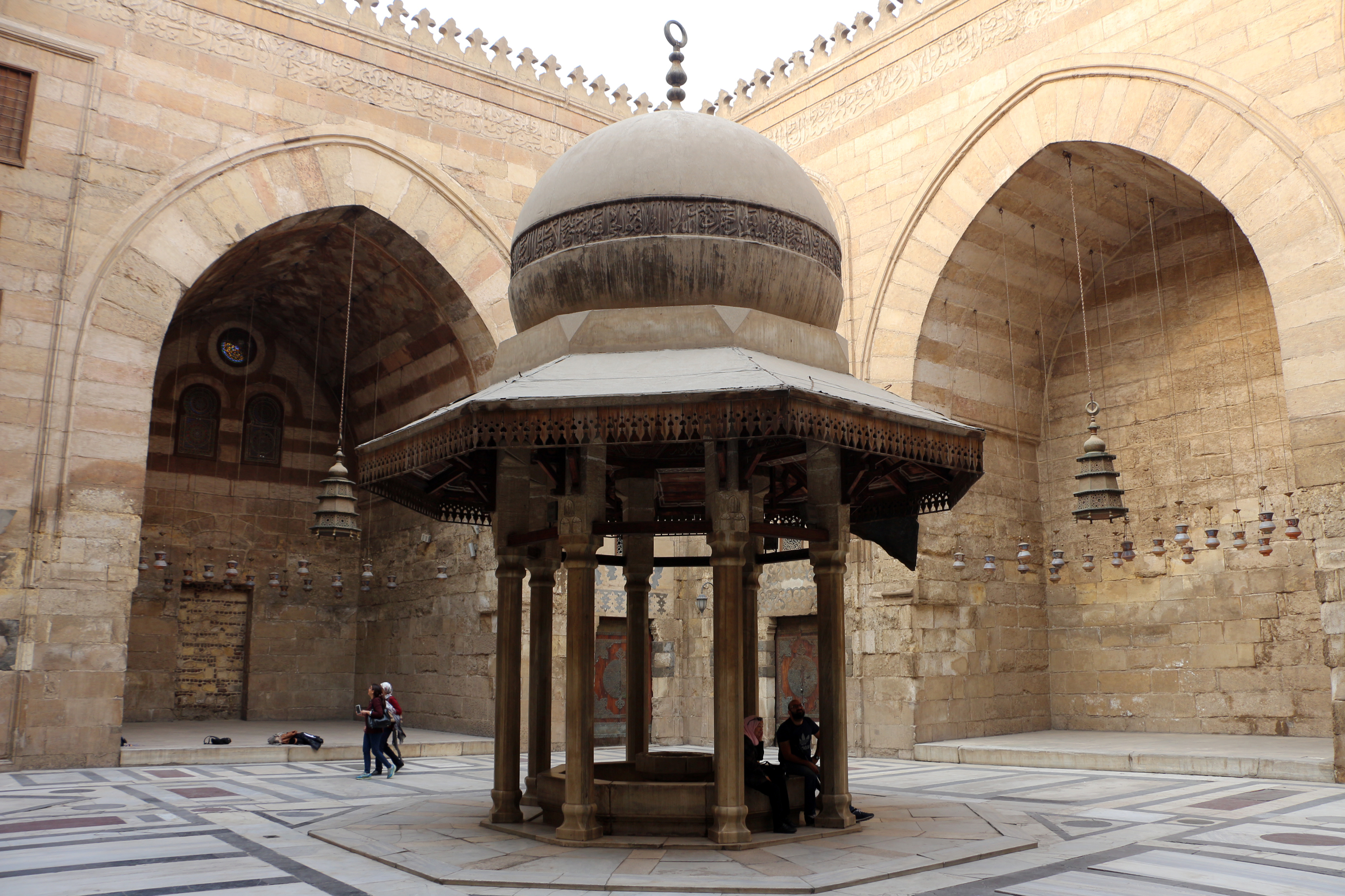 Madrasah of Sultan Barquq